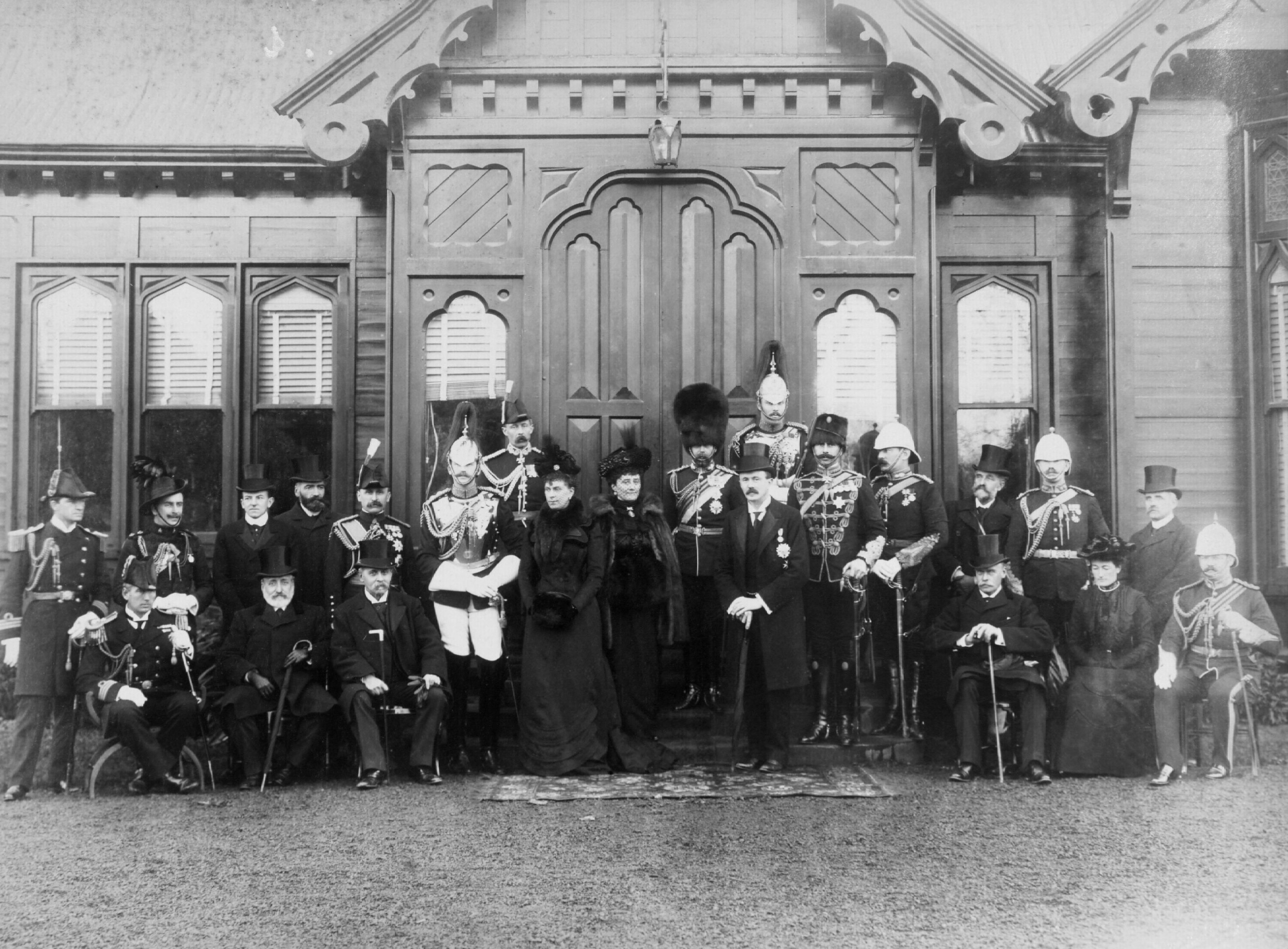 The Duke and Duchess of Cornwall and York and their entourage, with Lord and Lady Ranfurly and their party, at Te Koraha estate, Christchurch, New Zealand. Photographed by an unknown photographer, during the Royal Visit of 1901. Identified people are Commander Godfrey-Faussett (left), Sir Charles Cust (2d from left), Hon Charles Hill-Trevor (4th from left, rear), Duchess of Cornwall and York (11th from left), Lady Ranfurly (12th from left), Duke of Cornwall and York (13th from left), Lord Ranfurly (14th from left, front), Duke of Roxburgh (15th from left, rear), Prince Alexander of Teck (16th from left), Lord Wenlock (19th from left, seated), Lady Mary Lyon (21st from left, seated), Captain Dudley Alexander (extreme right).